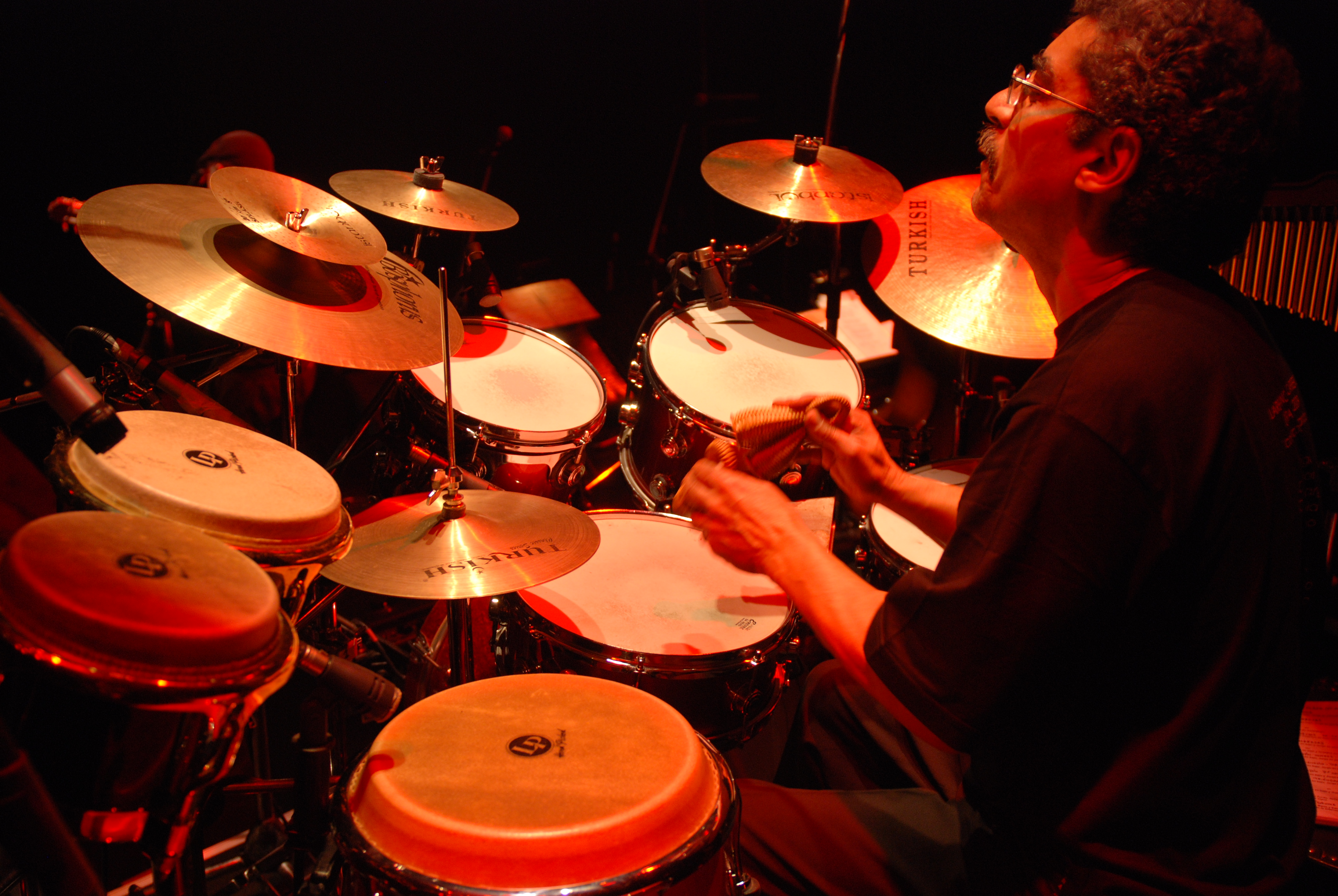 Jorge Trasante.